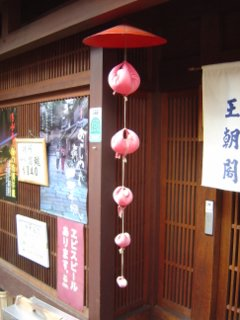 Photograph of the Kukrizaru "monkeys" at the Yasaka Koshindo Temple in Kyoto